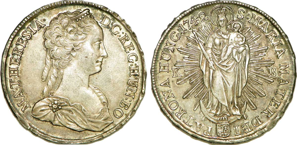 Thaler à la madone et à l'effigie de Marie Thérèse d'Autriche, 1742